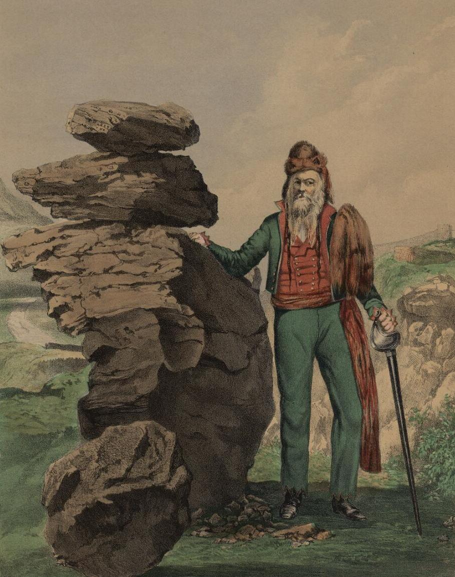 A portrait from the Welsh Portrait Collection at the National Library of Wales. Depicted person: Gwilim Ap Rhys Meddig